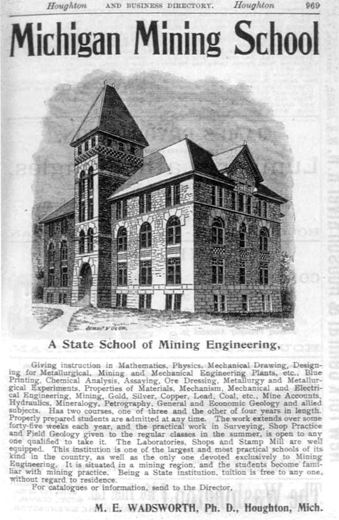 Advertisement for the Michigan Mining School in the 1895–96 edition of the Michigan State Gazetteer and Business Directory